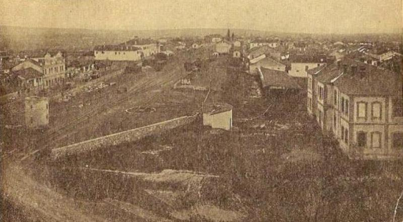 UroševacShqip: Ferizaji dikure